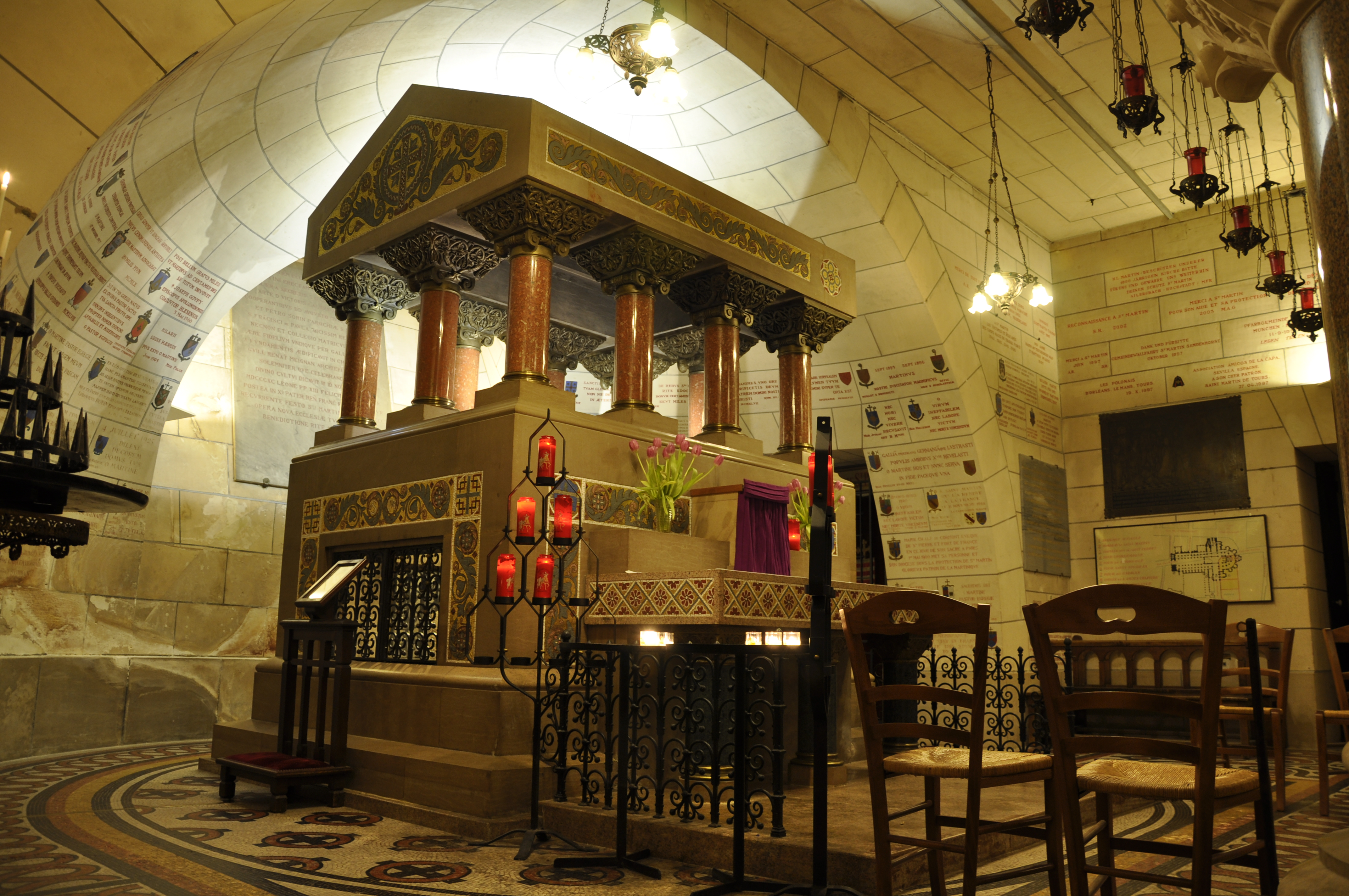 Tomb of Saint Martin of Tours in the crypt of the basilica.